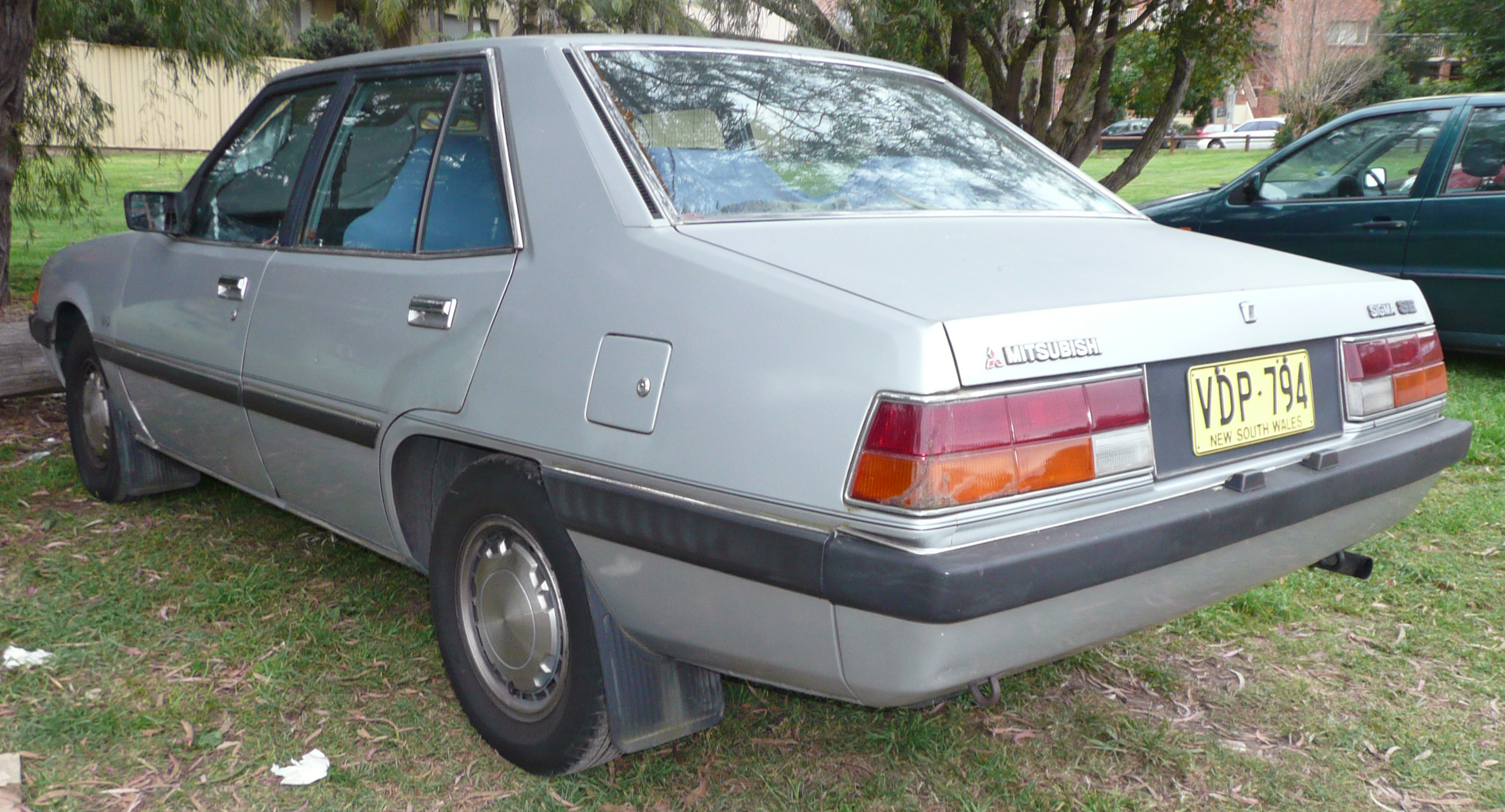 1982 Mitsubishi Sigma (GJ) SE sedan. Photographed in Sutherland, New South Wales, Australia.